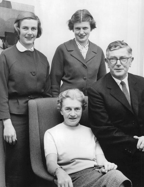 Nobel laureate Frank Macfarlane Burnet with wife Linda and daughters